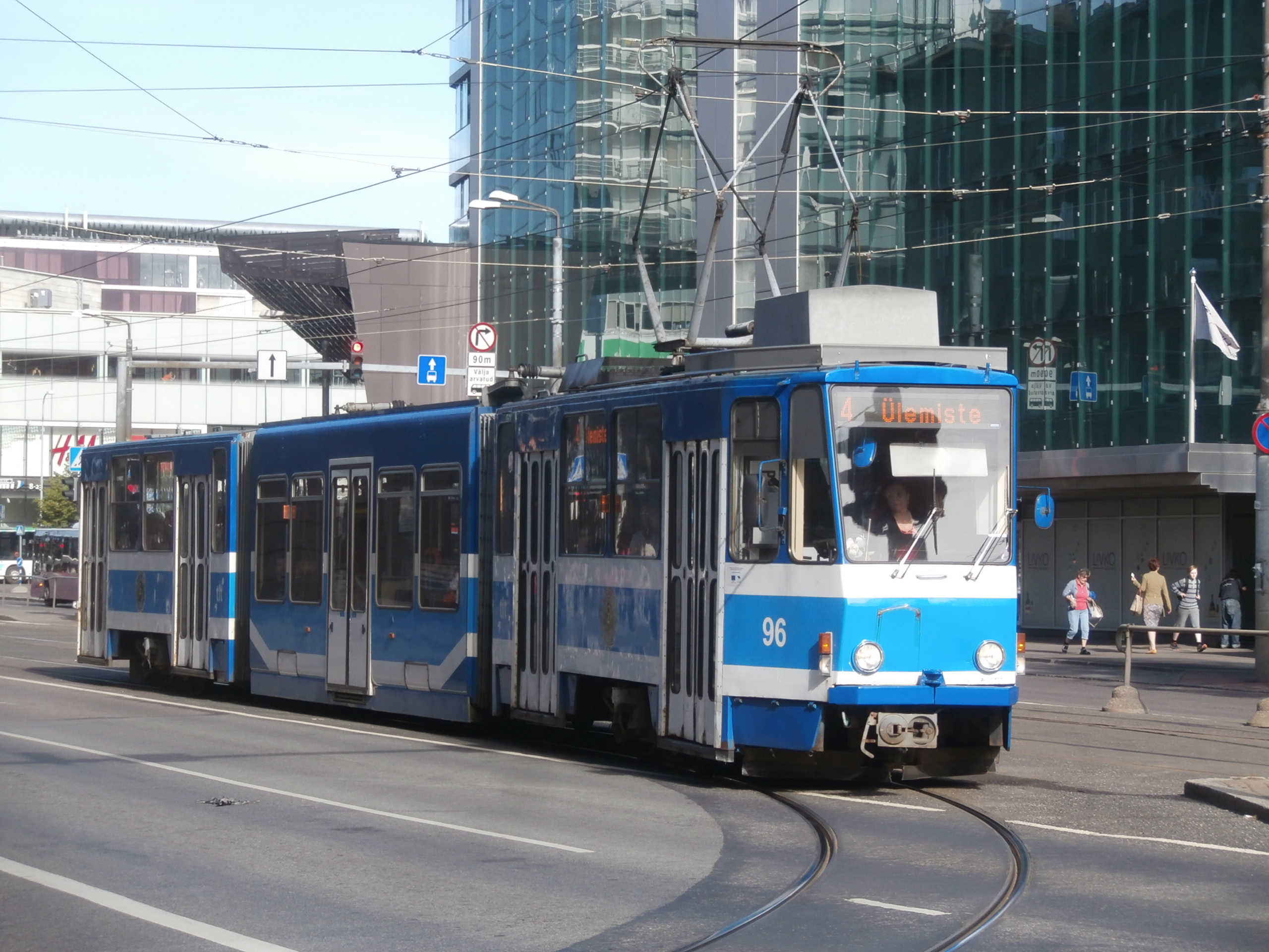 Tram 96 at Narva mnt - Maneezhi three-way junction in Tallinn 6 July 2016